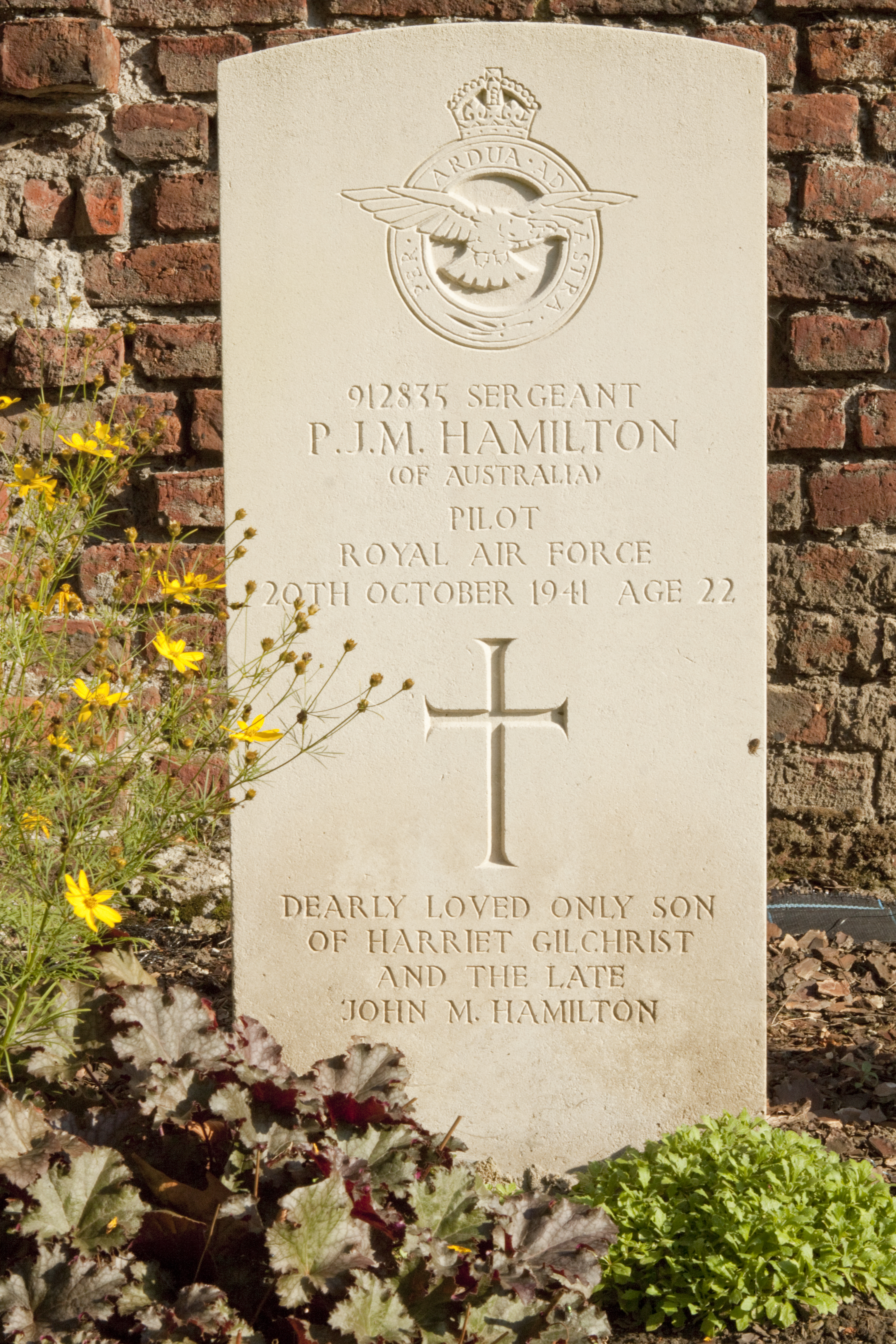 Charleroi Communal Cemetery